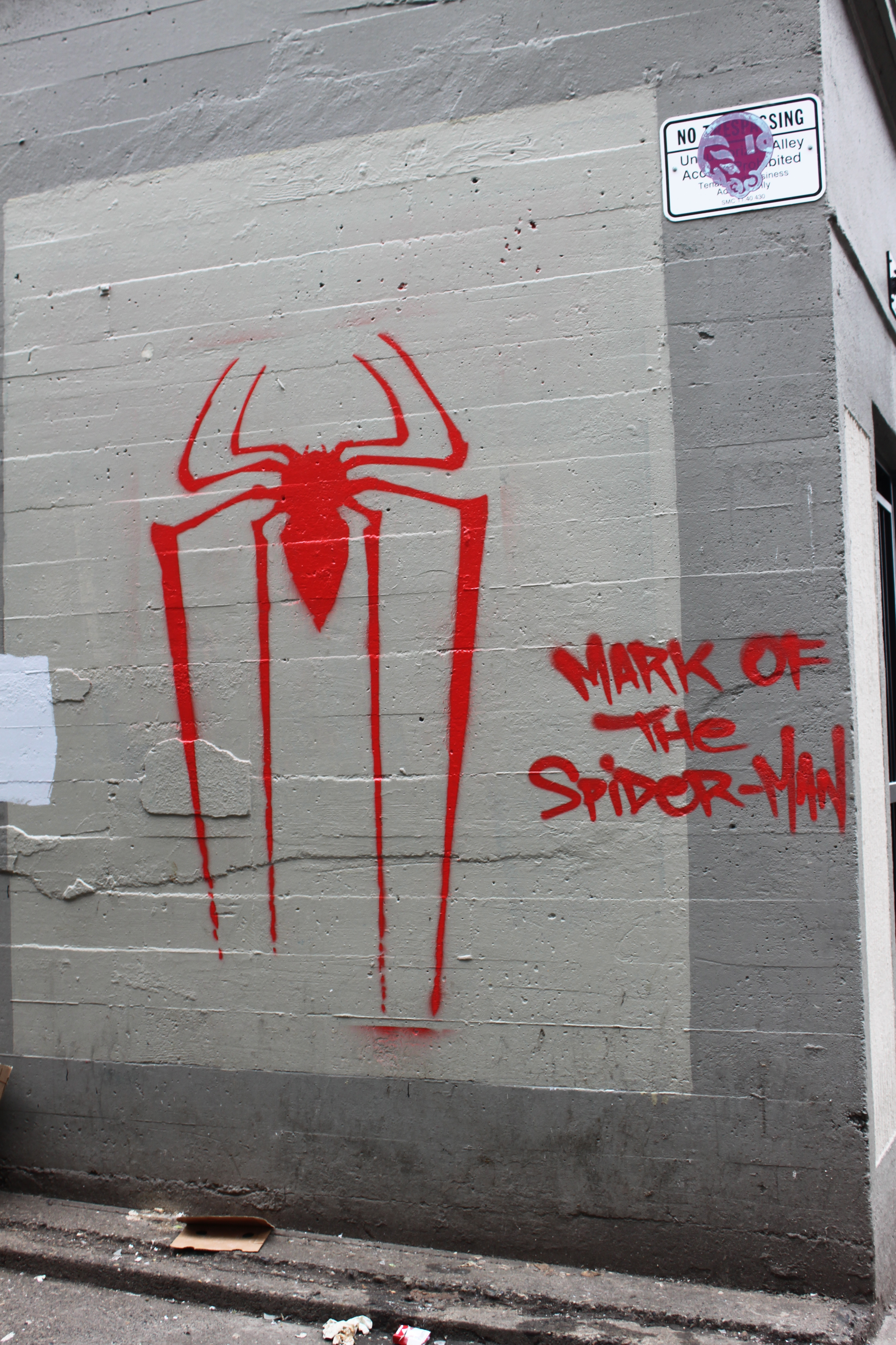 Graffiti of the logo of Spider-Man that says "Mark of the Spider-Man" done in Seattle, Washington by operatives for the viral campaign for The Amazing Spider-Man.